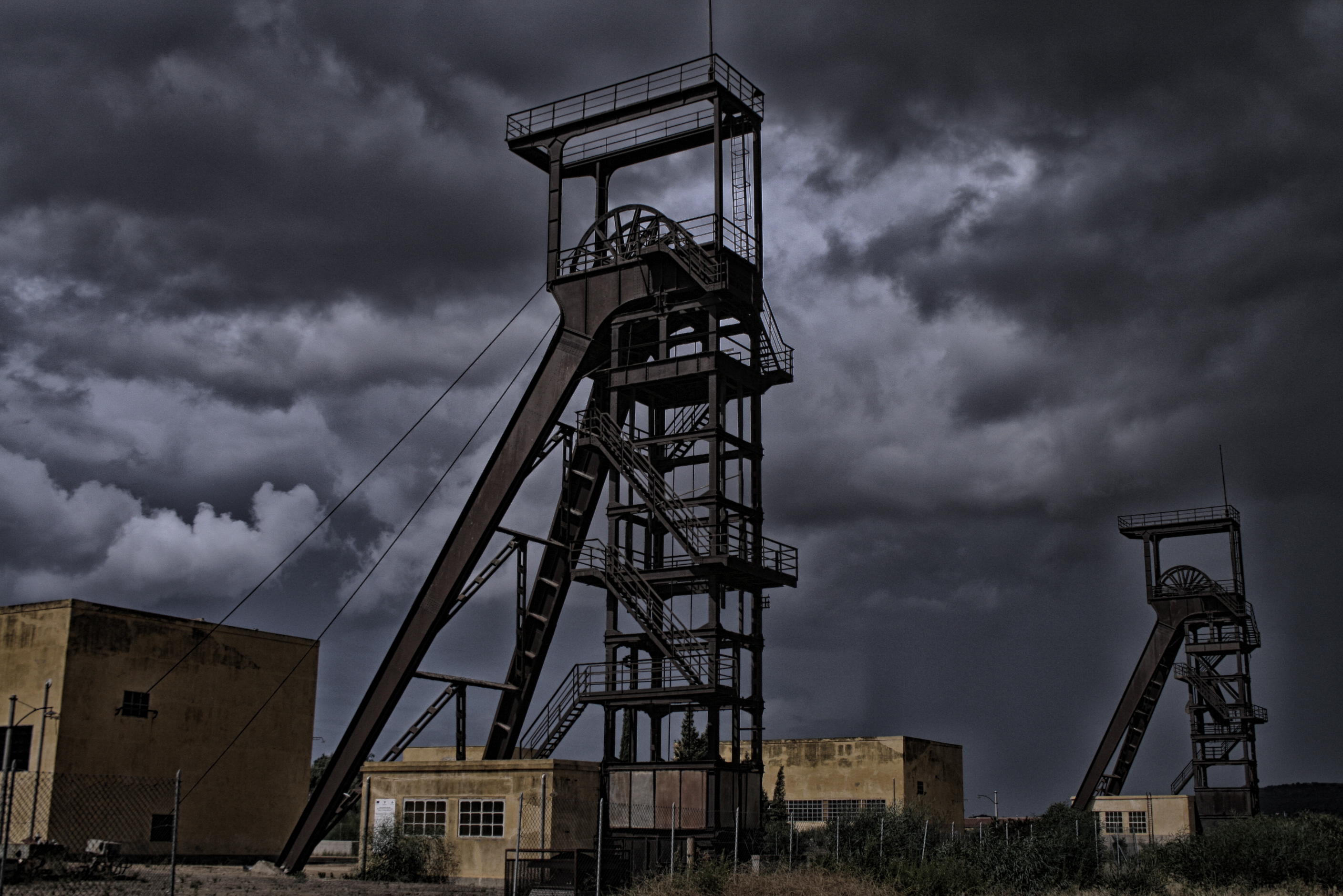 This is a photo of a monument which is part of cultural heritage of Italy.